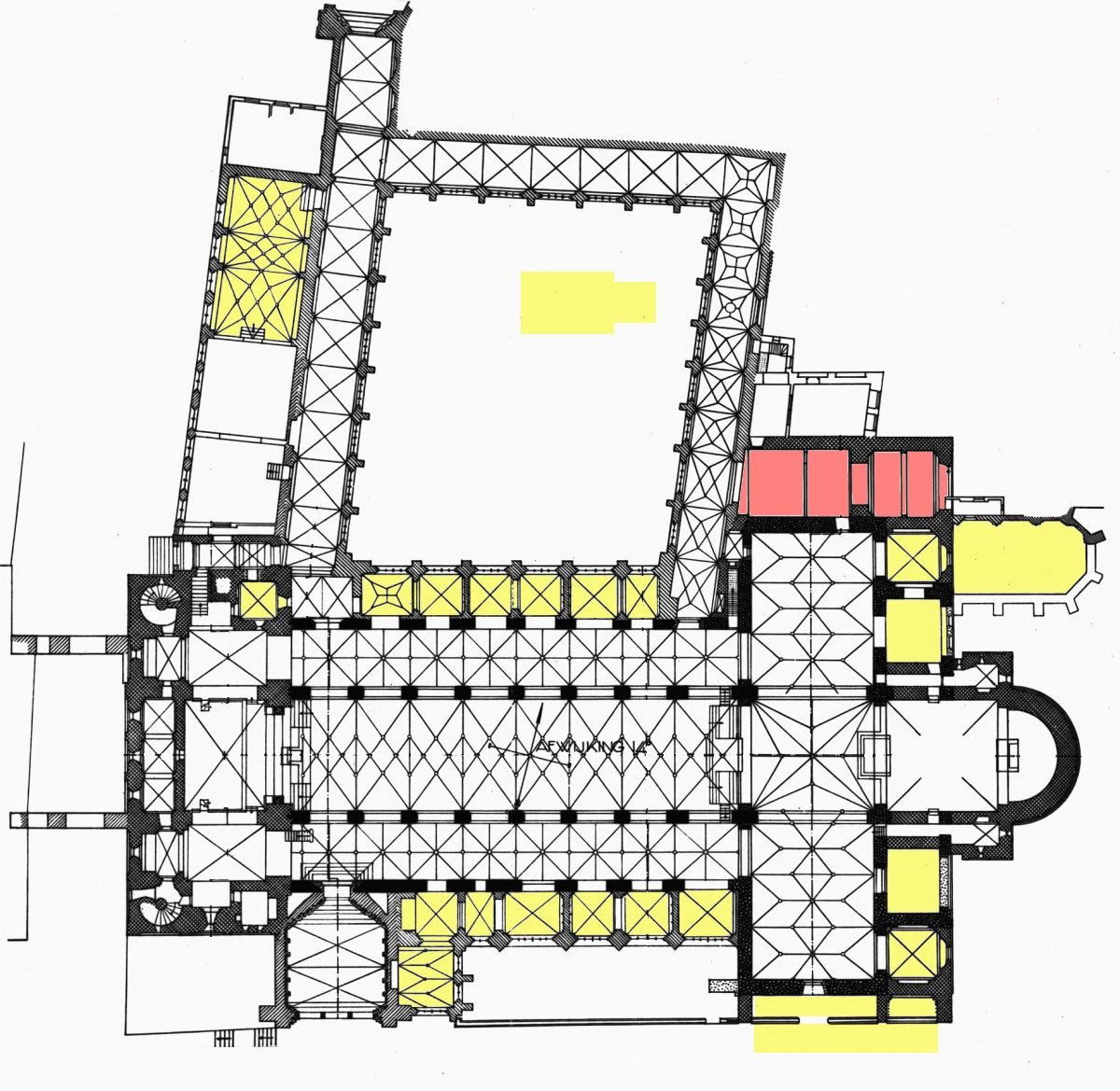 Locator map of chapels of the Basilica of Saint Servatius in Maastricht, the Netherlands. This map by an unknown author was first published in 1926 in Van Nispen tot Sevenaers De monumenten in de gemeente Maastricht, Deel 1, and donated to Wiki Commons by Rijksdienst voor het Cultureel Erfgoed on 7 January 2013. All colouring and other edits are by Kleon3. In yellow all 17 chapels of Sint-Servaasbasiliek in past and present. In red the double chapel in the cloisters.